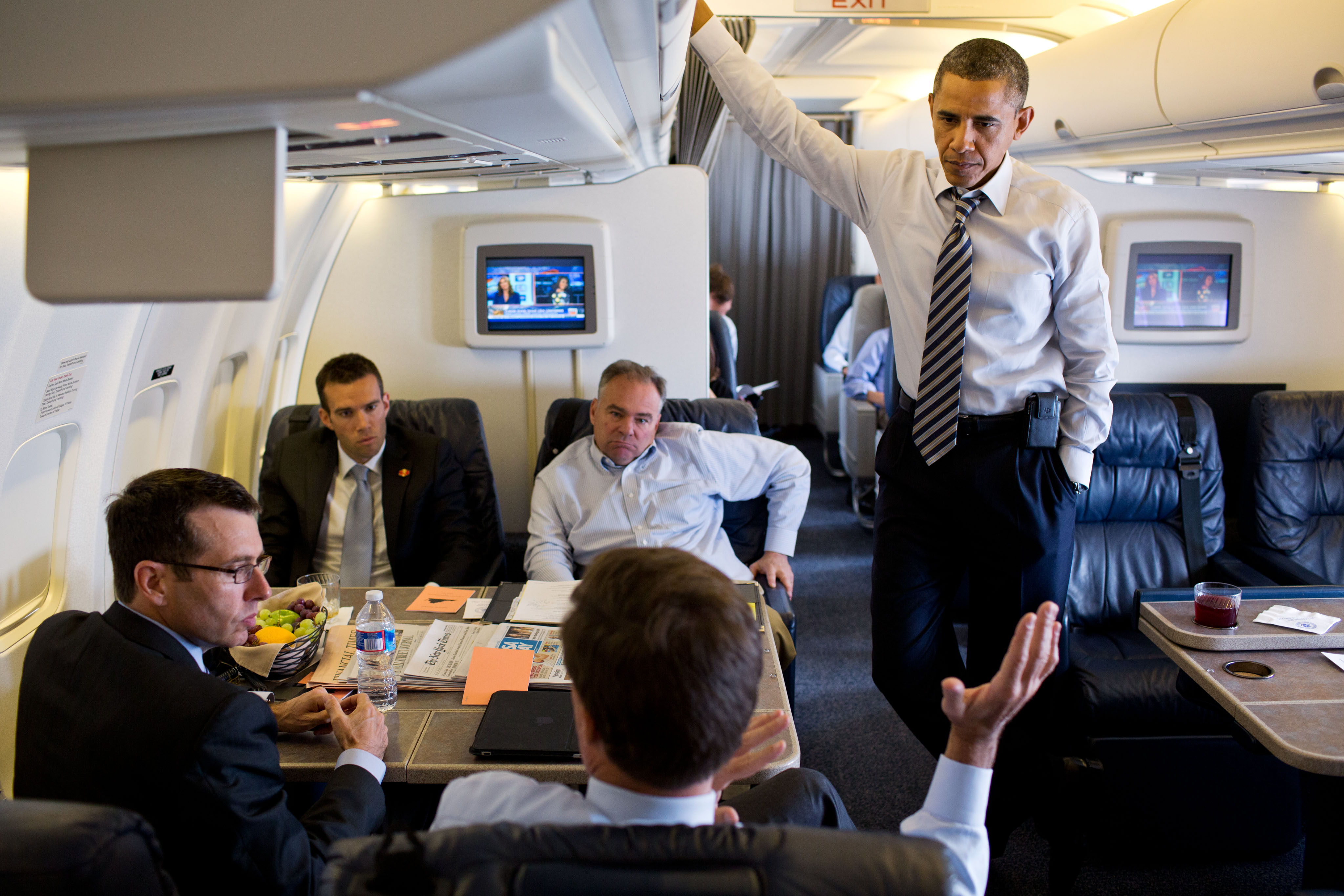 President Barack Obama listens to Sen. Mark Warner, D-Va., aboard Air Force One during a flight to Norfolk, Va., July 13, 2012. Seated, from left, are: Senior Advisor David Plouffe; Jon Favreau, Director of Speechwriting; and former Virginia Governor Tim Kaine. (Official White House Photo by Pete Souza)